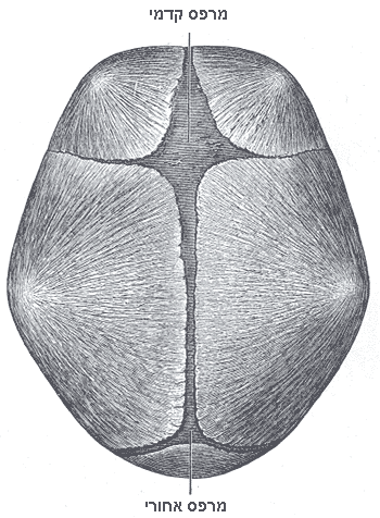 The skull at birth, showing the anterior and posterior fontanelles.